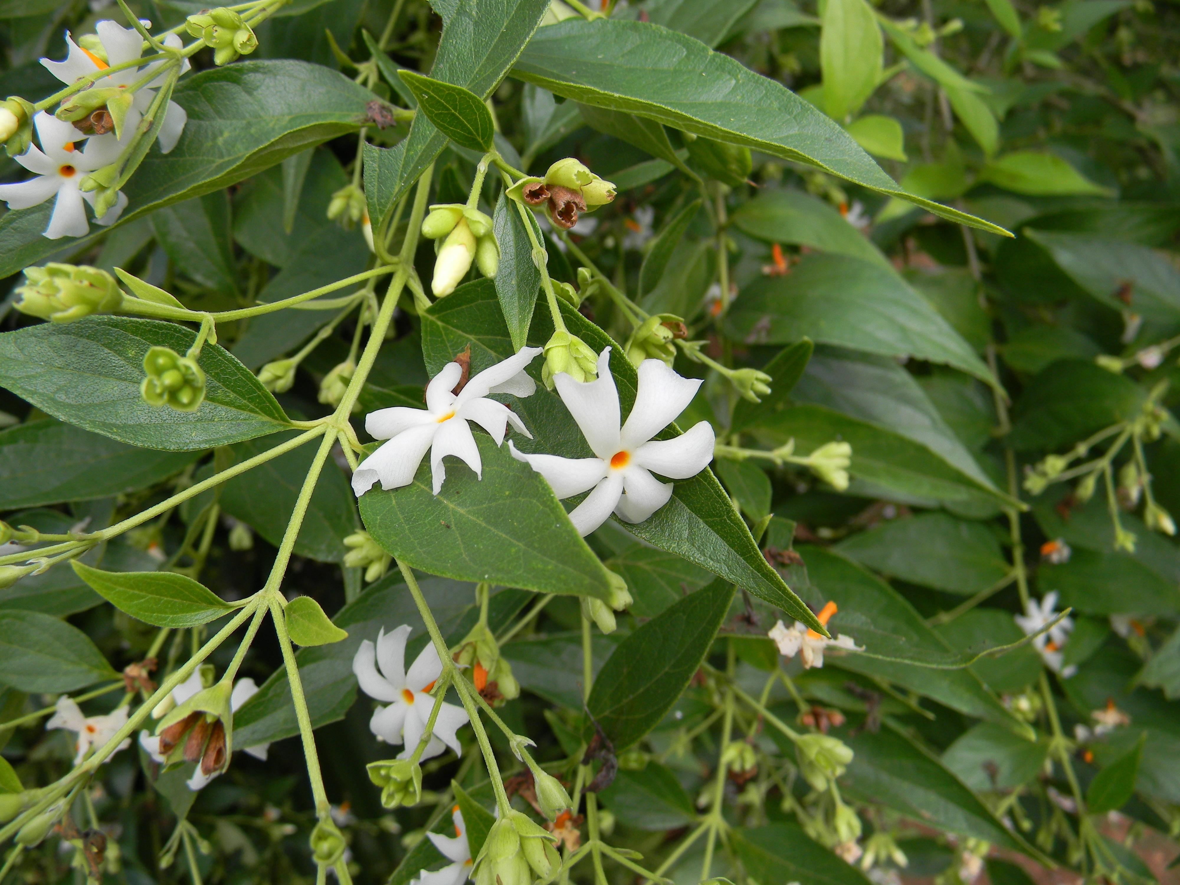 fragrant white star-shaped salverform flower with orange corolla tube